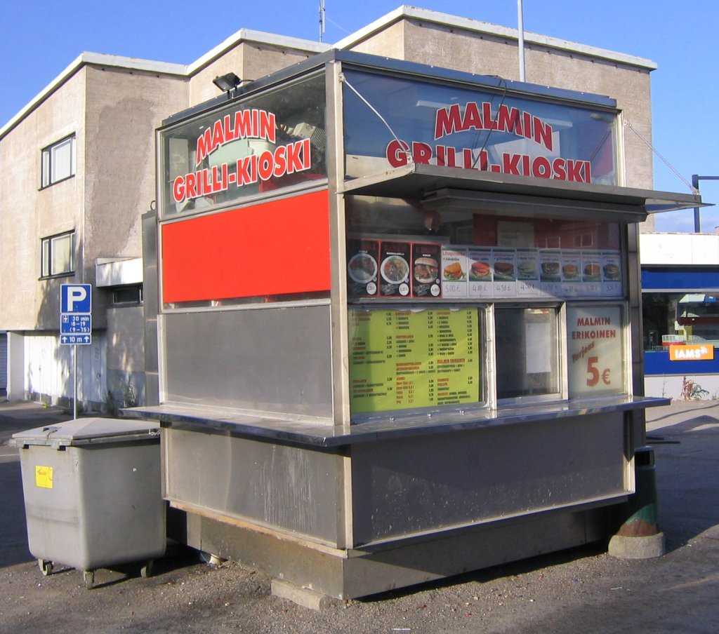 Fastfood kiosk in Helsinki, Finland.